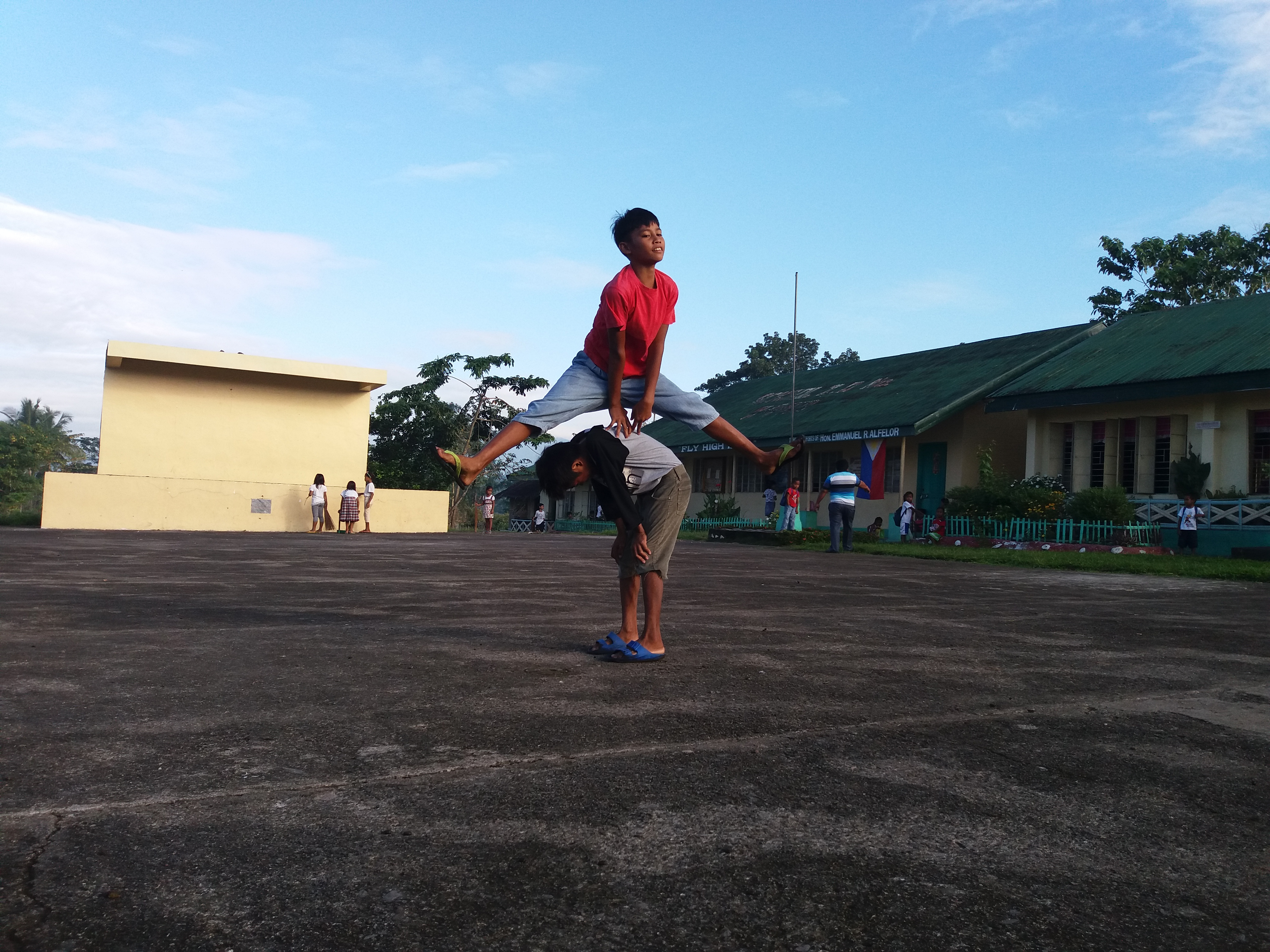 The native game luksong baka in Iriga City